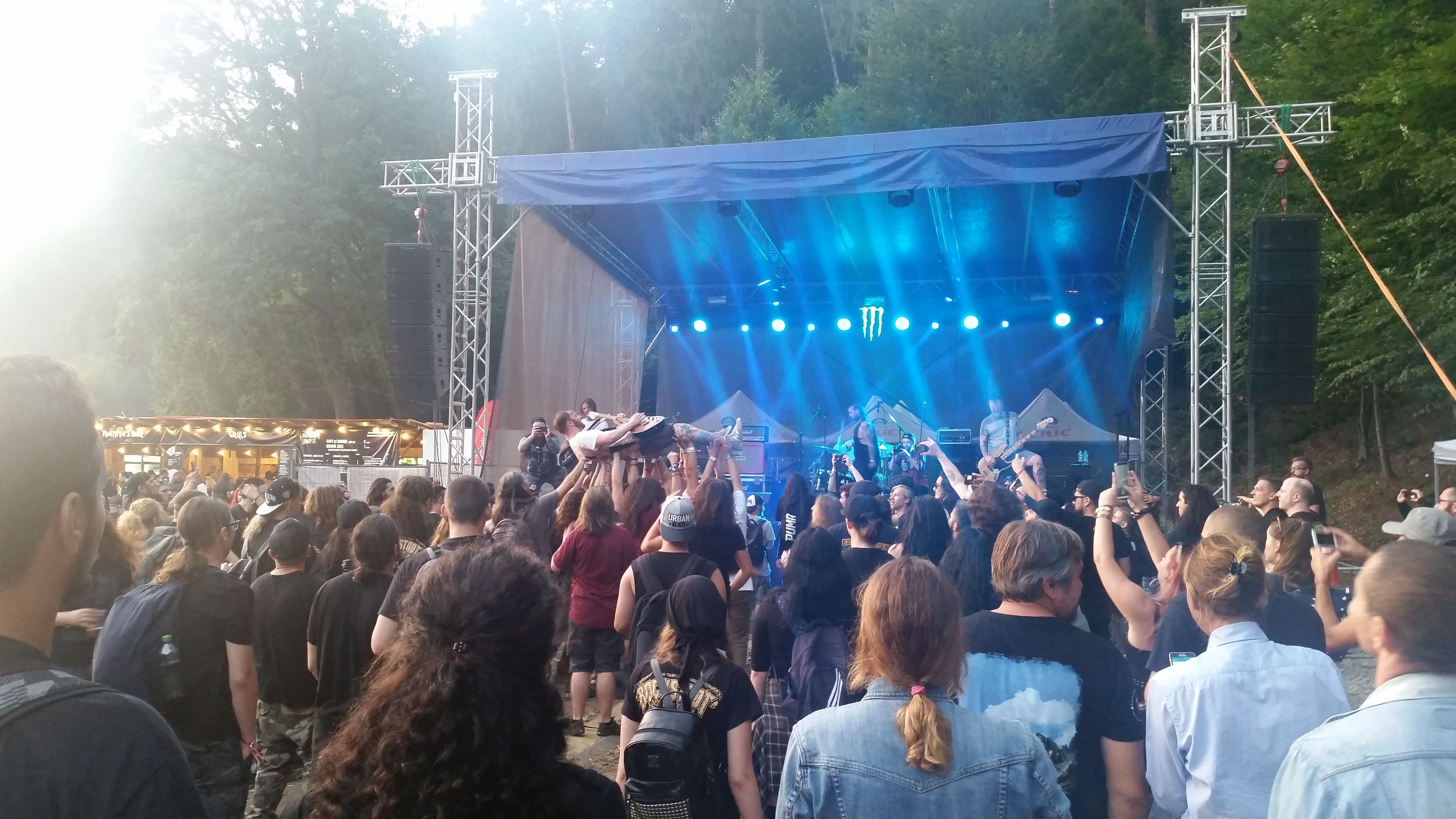 The heavy metal festival Rockstadt Extreme Fest 2018 in Râșnov, Romania. The second stage during To Kill Achilles' show.